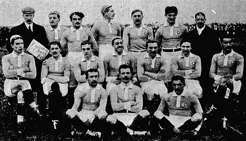 The French team for the England-France match on 28 January 1911. Front row: Laterrade, Dutour, Peyroutou Second row (seated): Legrain, Lesieur, Burgun, Communeau, Varvier, Charpentier, Duval Back row: C Rutherford, Bavozet, Forgues, Guillemin, Mauriat, Mounic, unknown (in overcoat)